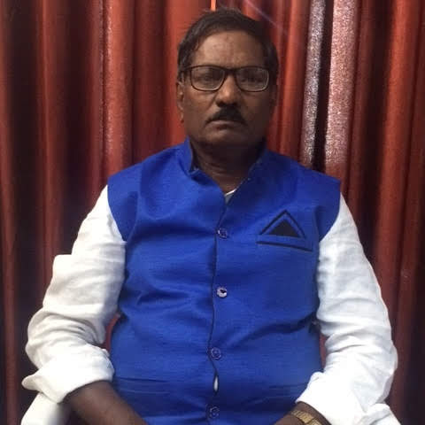 Ganishetty Ramulu (Writer)